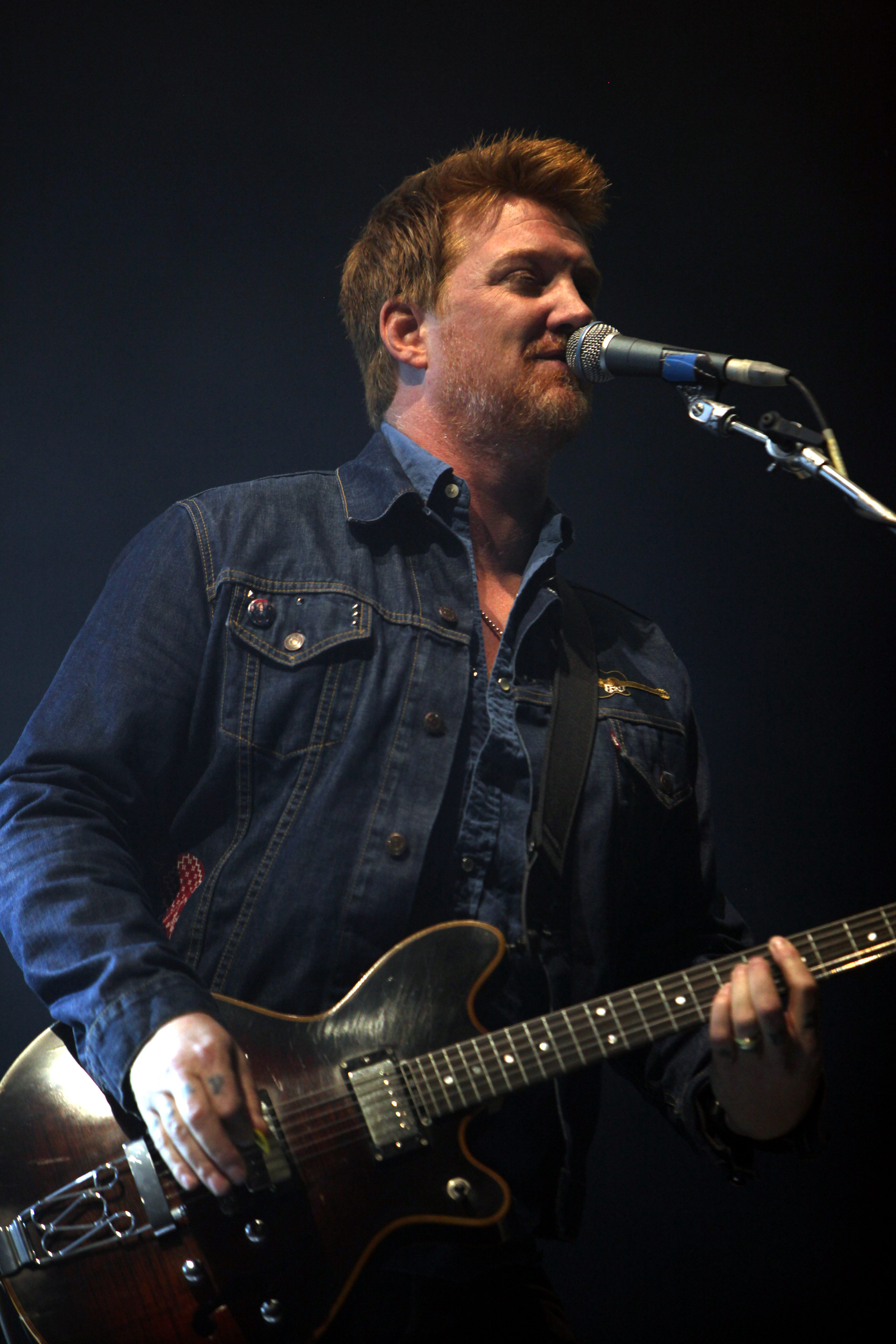 Josh Homme with Queens of the Stone Age at the Eurockéennes de Belfort 2011 The making of this document was supported by Wikimedia CH. (Submit your project!) For all the files concerned, please see the category Supported by Wikimedia CH.